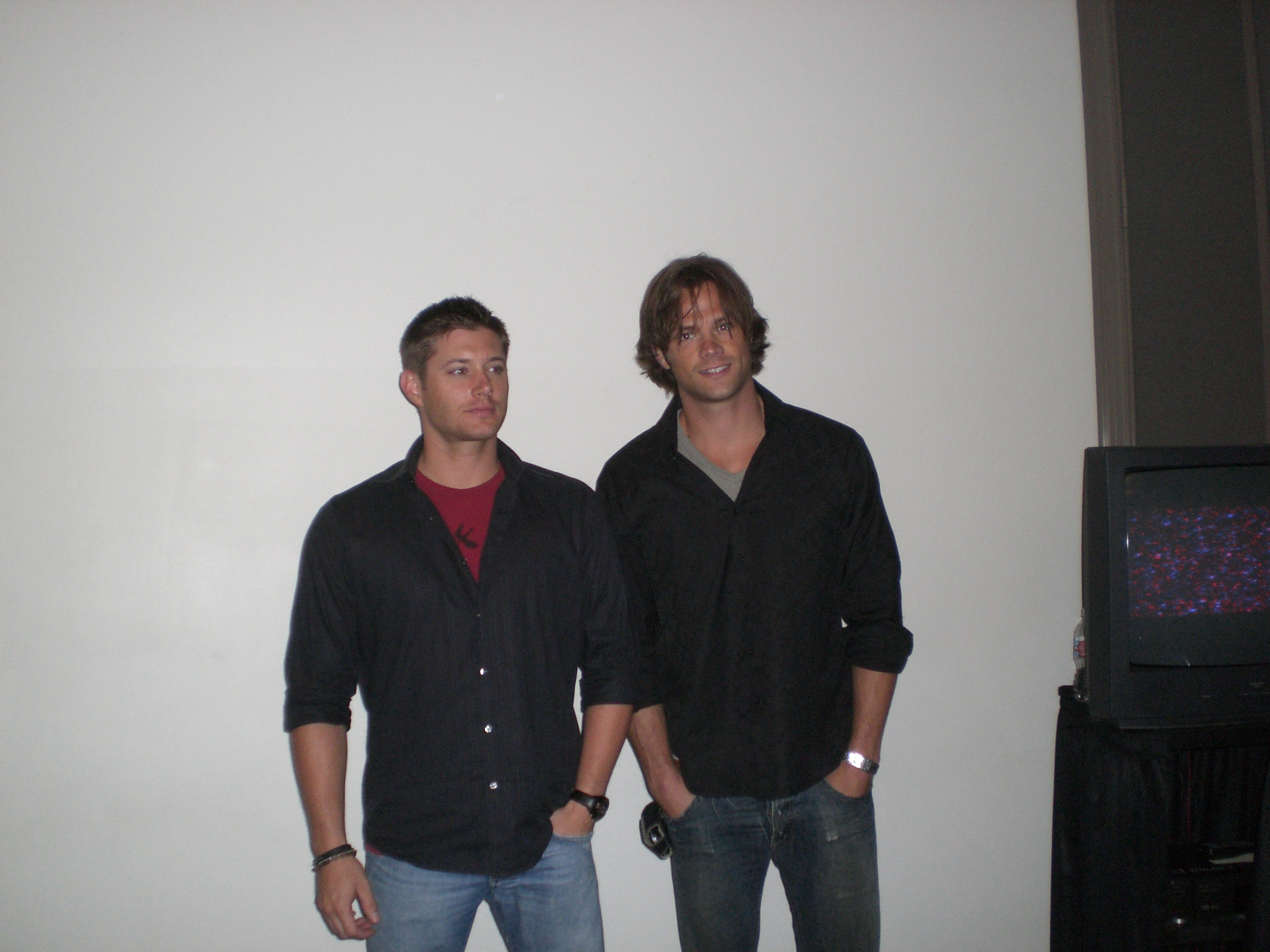 Jensen Ackles and Jared Padalecki at the Comic-Con International 2008